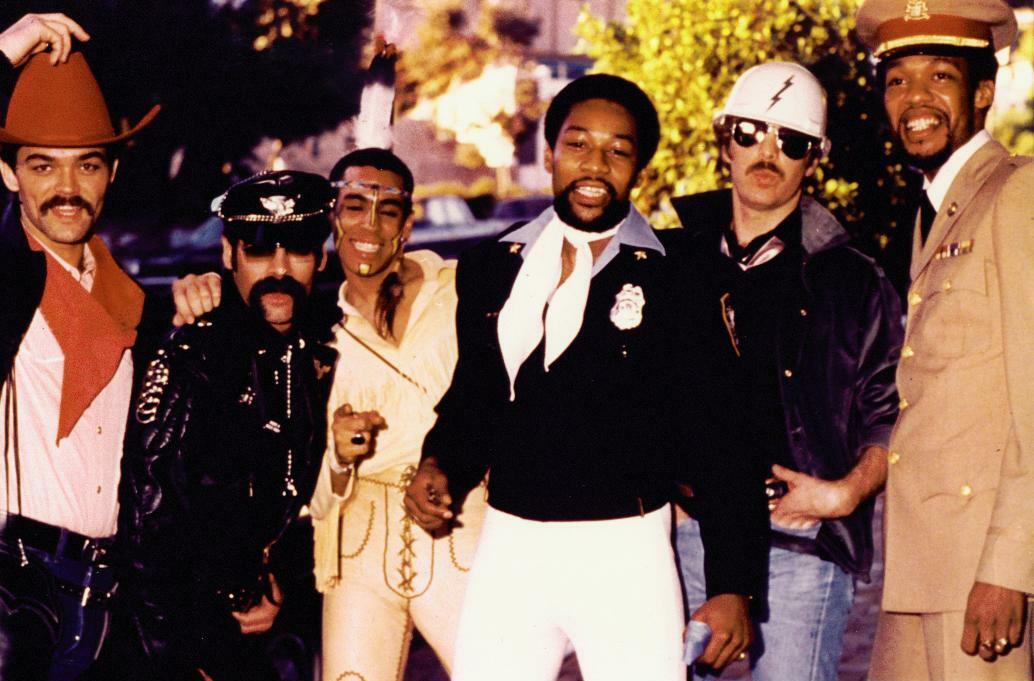 Original members of the disco group Village People 1978.